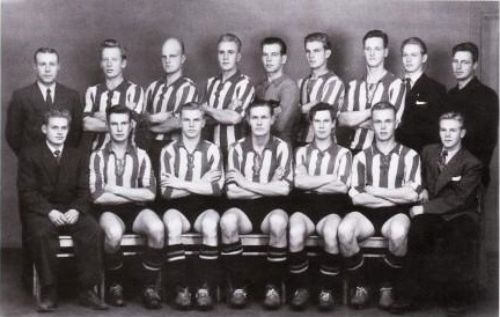 sport